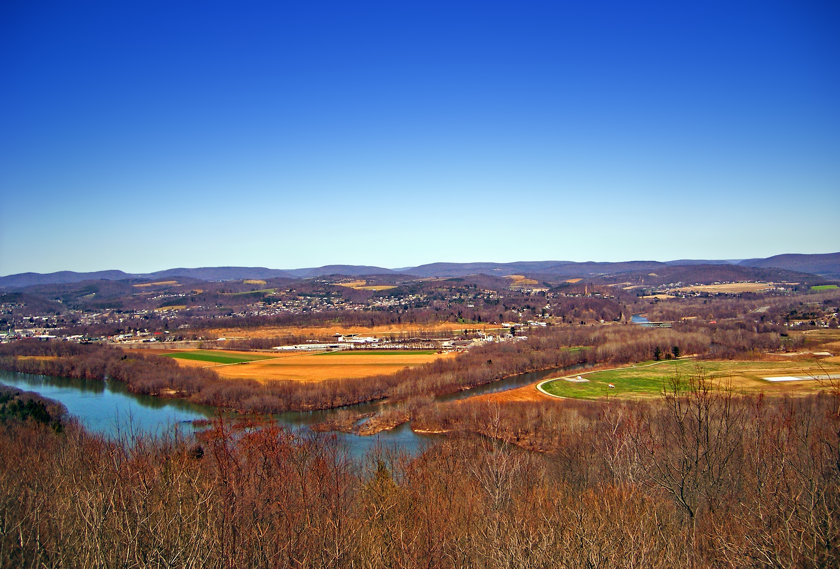 Looking north from Bald Eagle Mountain, Lycoming County. In the foreground is the Susquehanna River Valley near Montoursville; in the distance is the Allegheny Front.